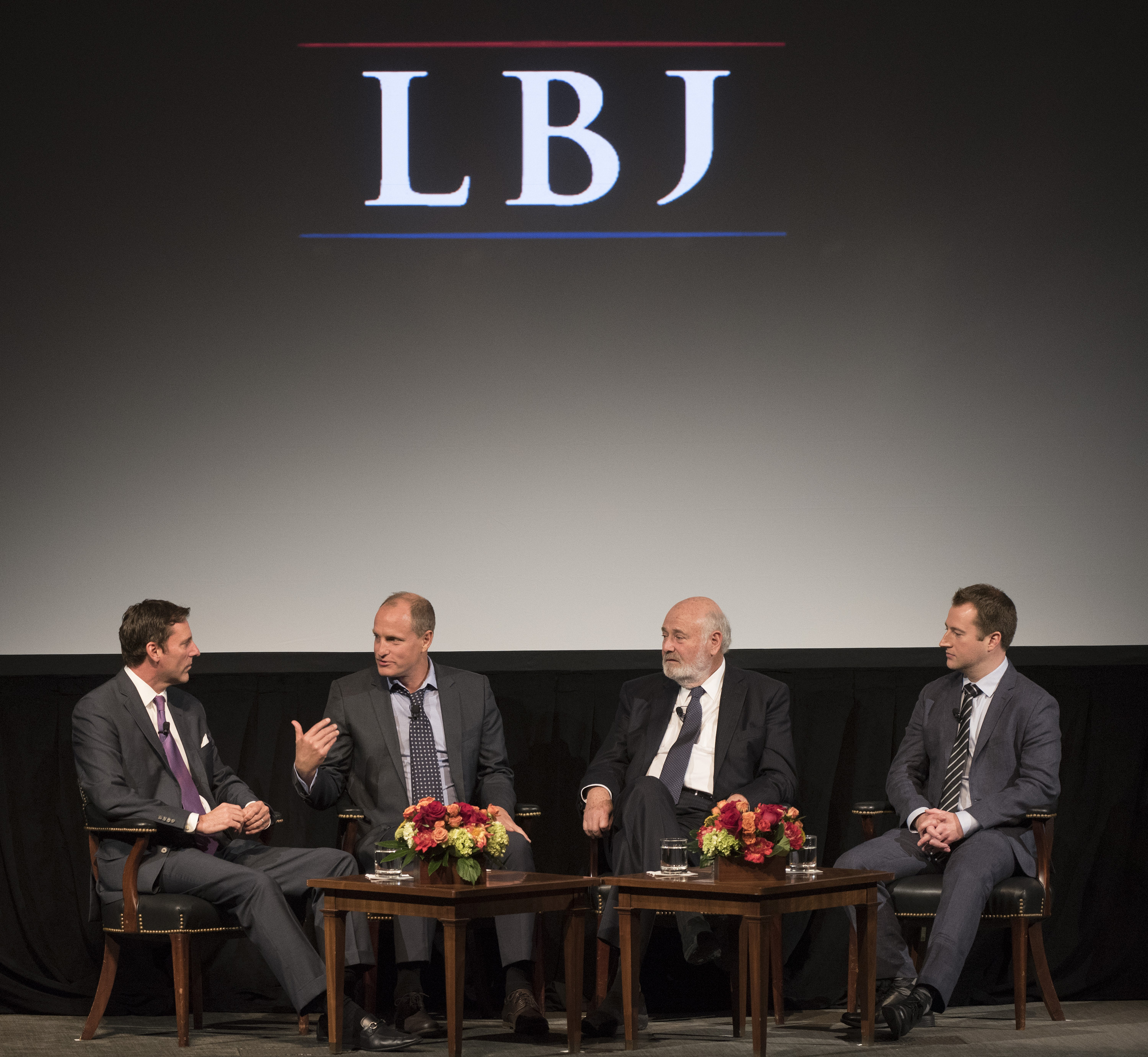 Director of the LBJ Library Mark Updegrove, left, actor Woody Harrelson, director Rob Reiner and writer Joey Hartstone participate in a discussion following a screening of the film LBJ at the LBJ Presidential Library in Austin, Texas on Saturday, October 22, 2016. On Saturday evening October 22, 2016, the LBJ Presidential Library held a sneak peek of Rob Reiner's new film LBJ, starring Woody Harrelson as the 36th president. The film, which premiered at the Toronto International Film Festival in September, chronicles the life and times of Lyndon Johnson who would inherit the presidency at one of the most fraught moments in American history. Following the screening, director Rob Reiner, actor Woody Harrelson, and writer Joey Hartstone joined LBJ Library Director Mark Updegrove on stage for a conversation about the film.